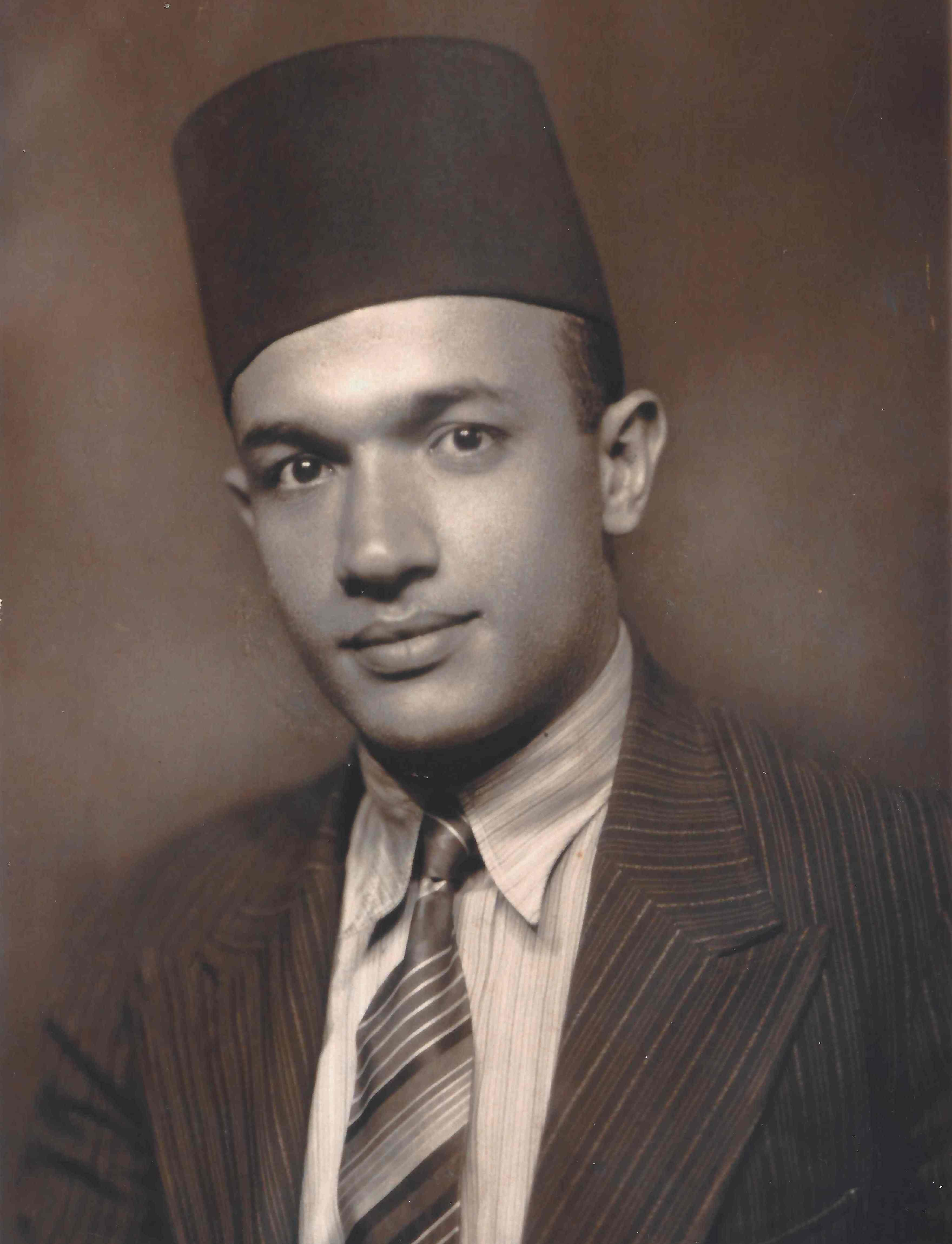 Muhammad As'ad Tlass (1913-1959) is a well-known Syrian writer, thinker and politician